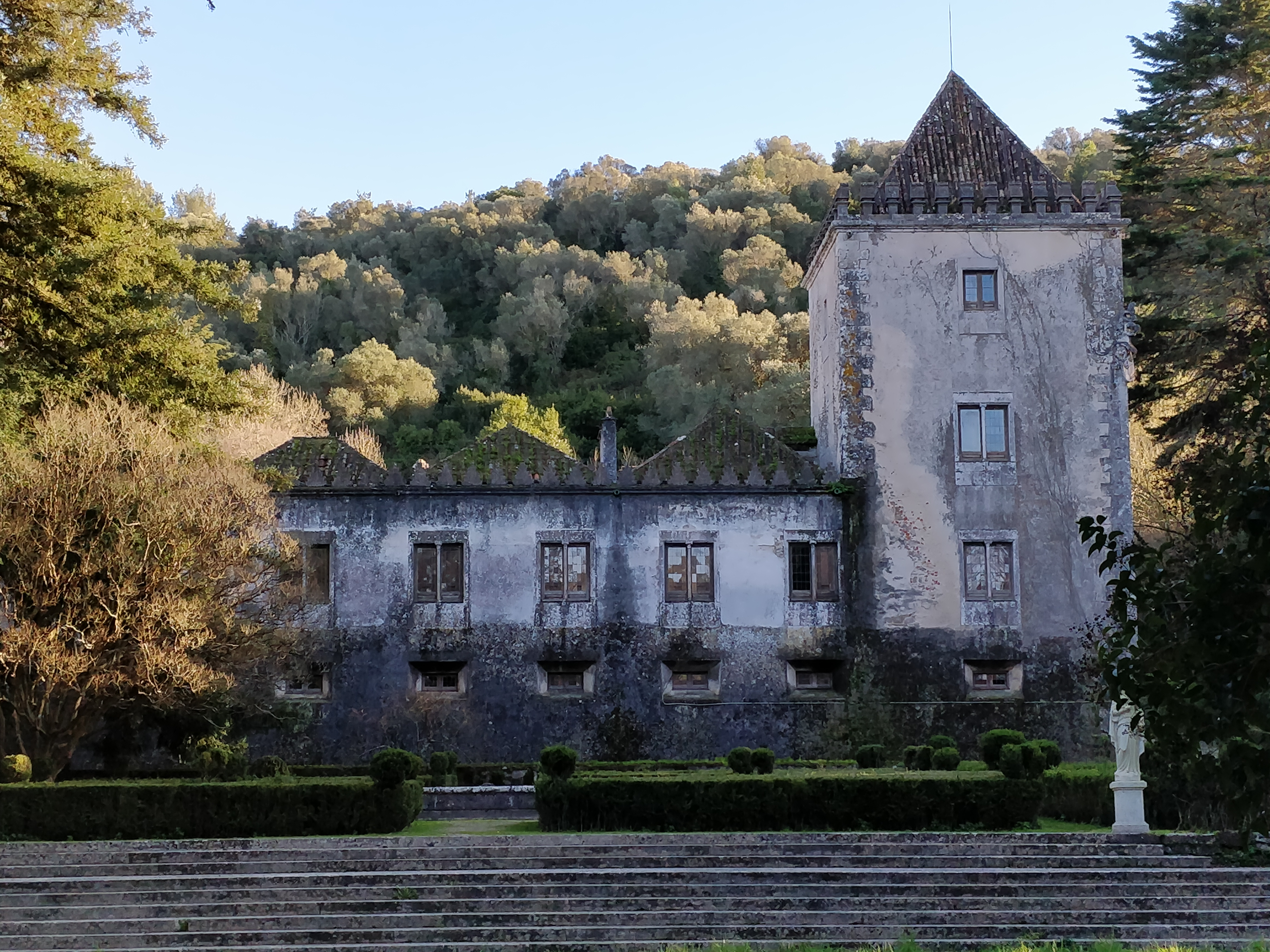 Quinta da Ribafria dates back to the 1550s. It is situated just north of the town of Sintra.